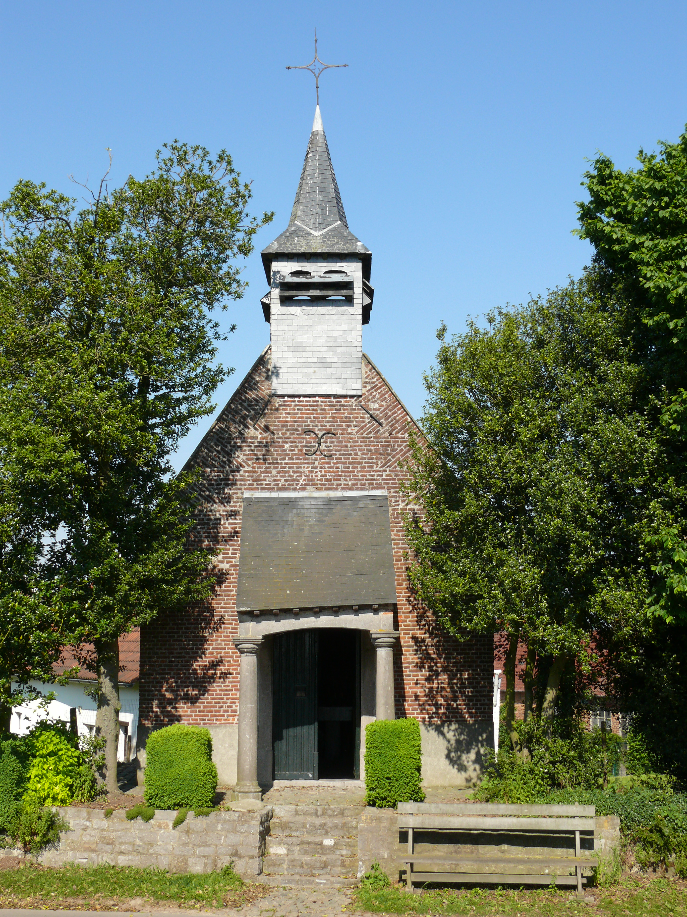 St-Martin's Chapel in Bever, dating back to 1760.